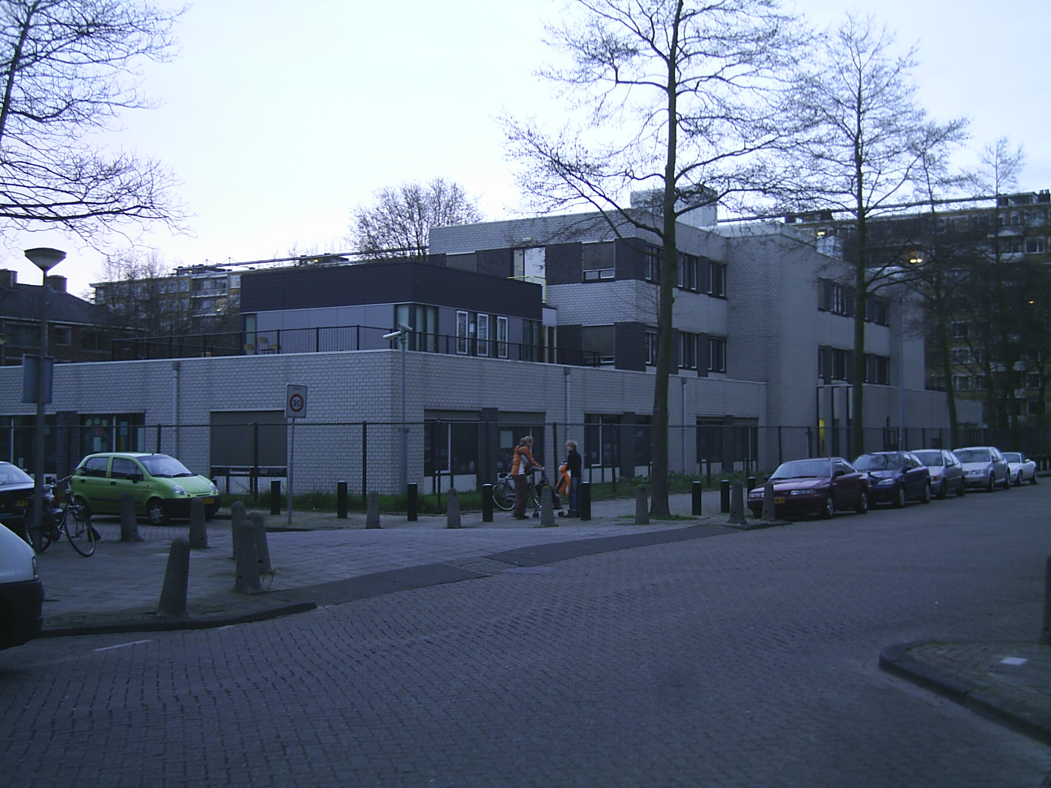 Jewish school 'Cheider' in Amsterdam, The Netherlands